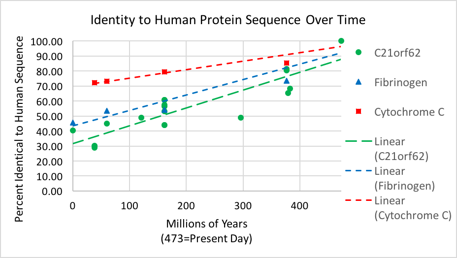 C21orf62 gene evolution in humans over time compared to cytochrome C and fibrinogen.